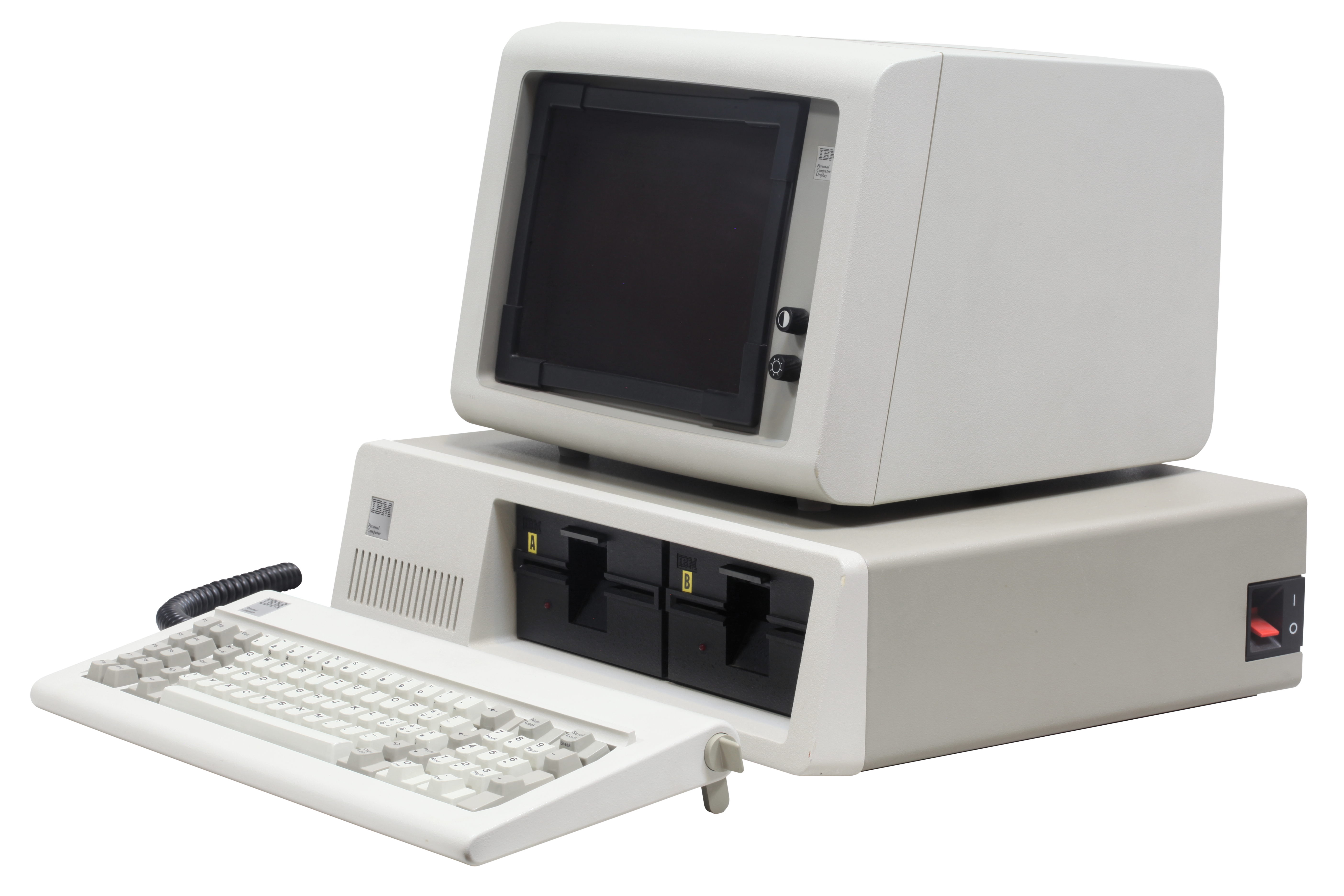 IBM Personal Computer On display at the Musée Bolo, EPFL, Lausanne.